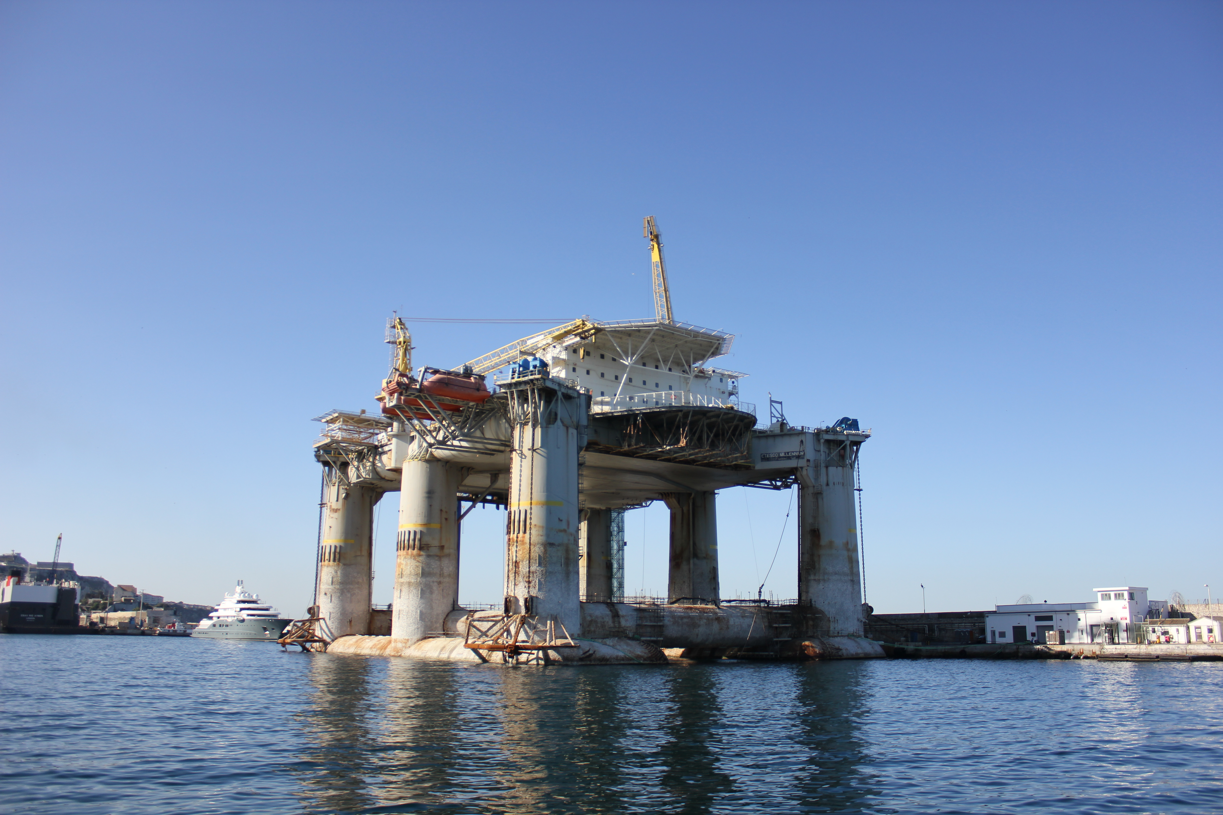 Accommodation platform Etesco Millennium in Gibraltar